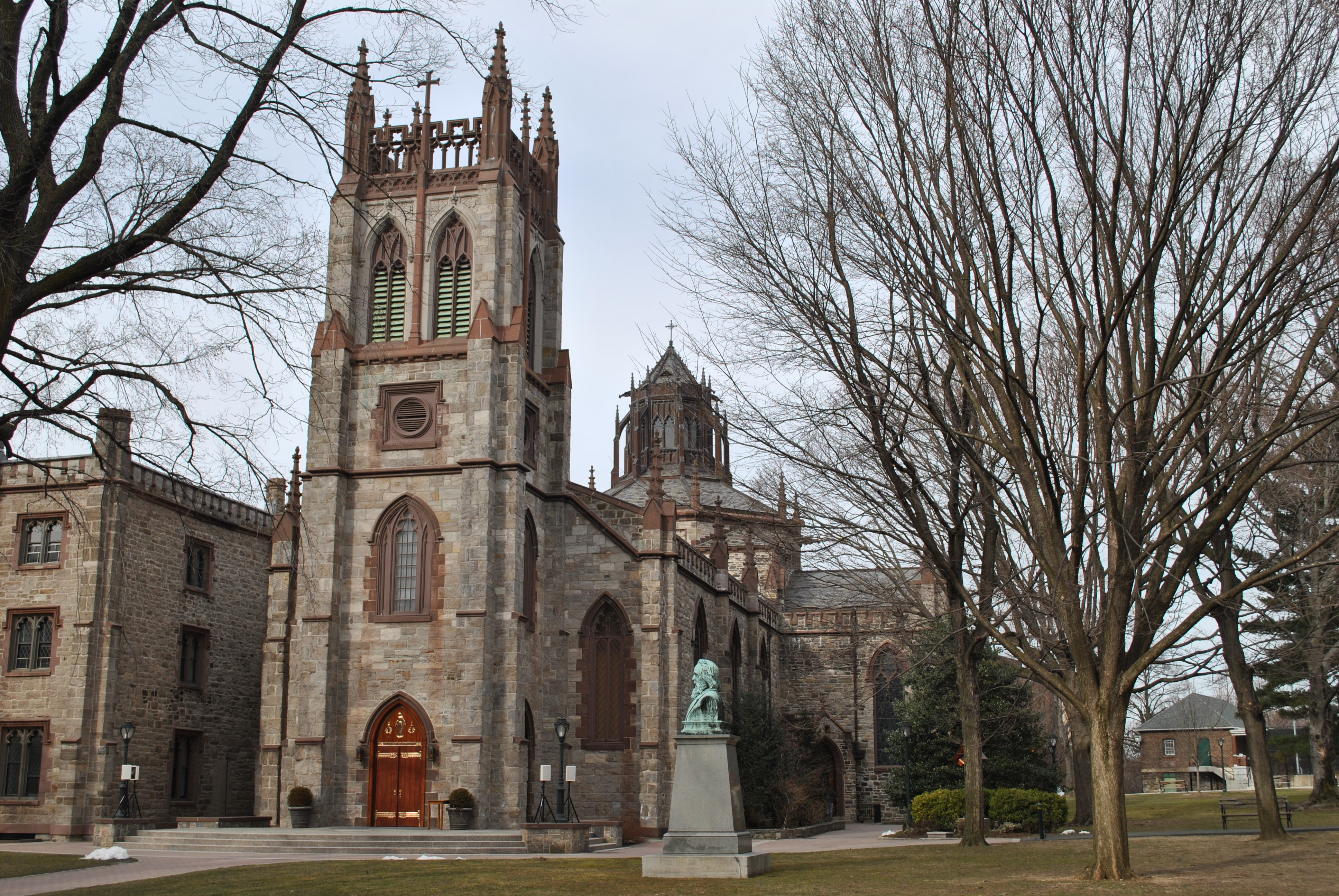 Fordham University Chapel